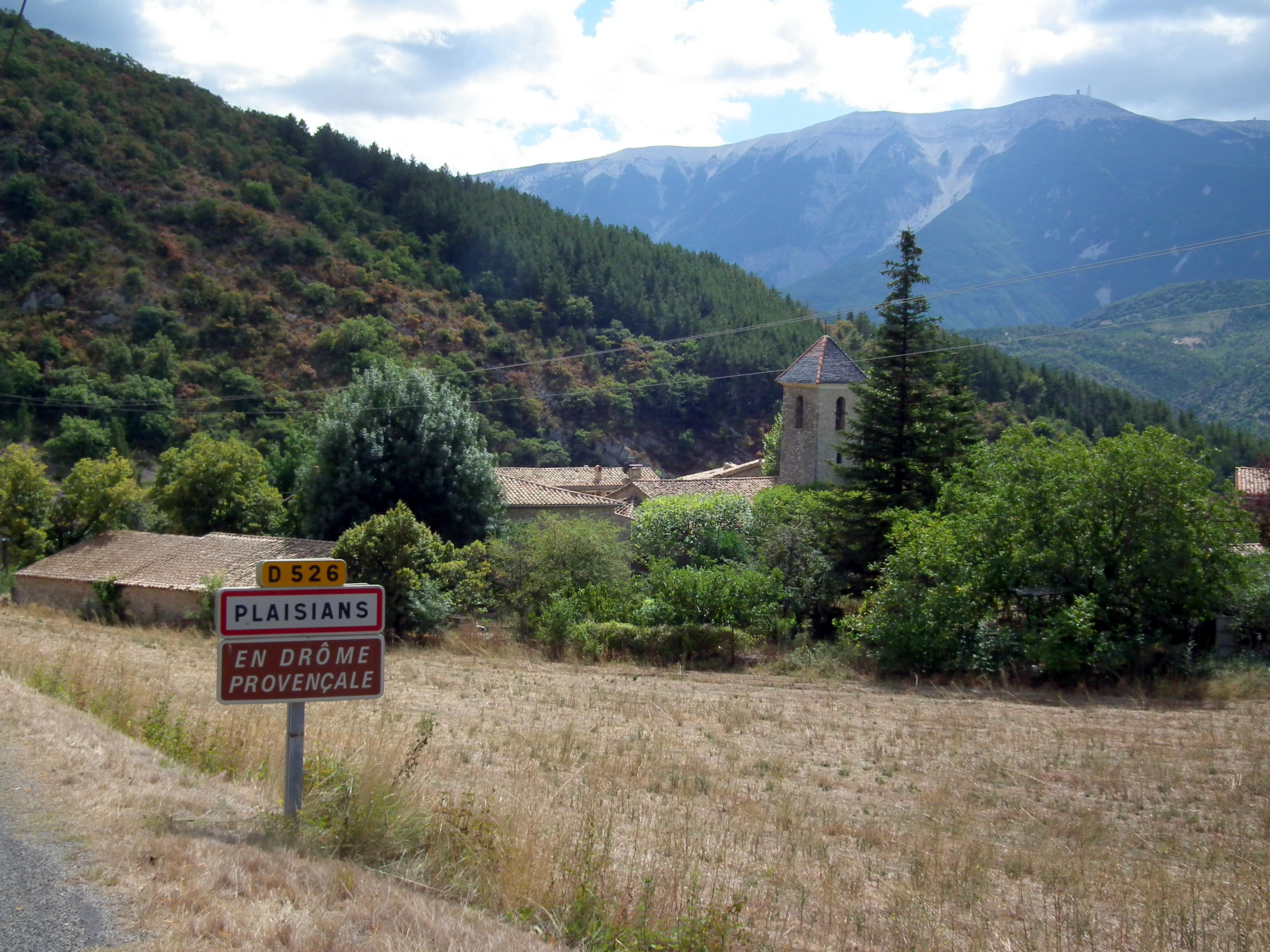 Overview of Plaisians - Drôme - France